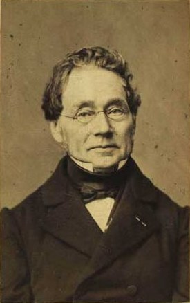 Peder Goth Thorsen (1811-1883), Danish librarian, historian, and theologian